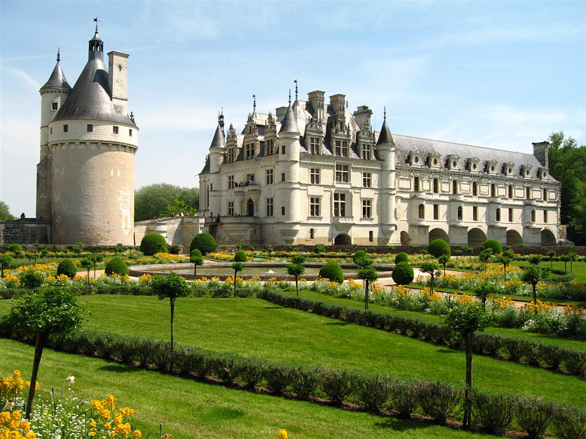 Château de Chenonceau - view from Catherine de Medici Gardens